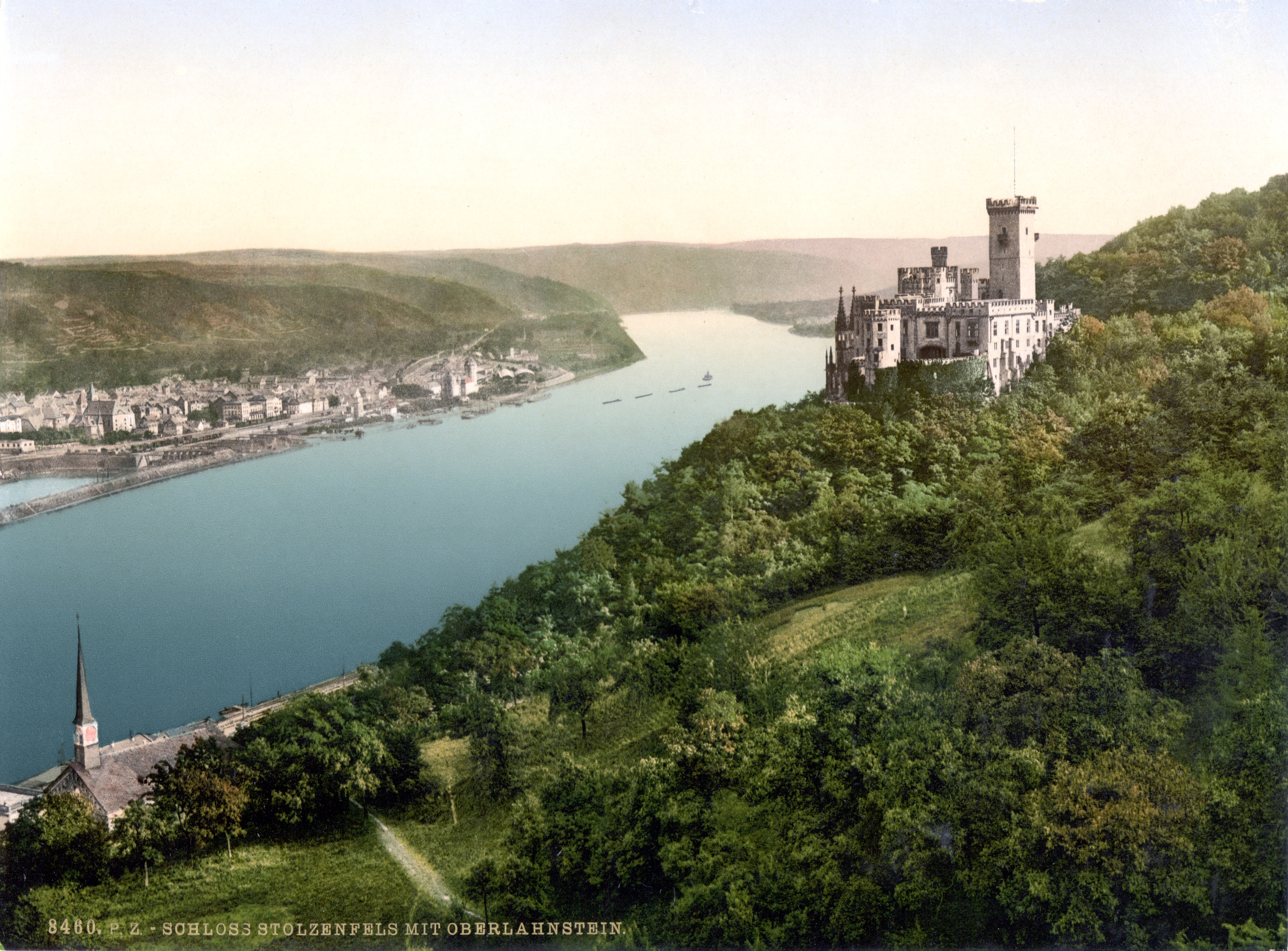 Castle Stolzenfels - view from north